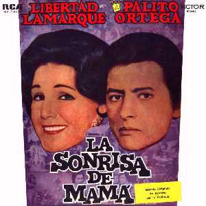 Palito Ortega